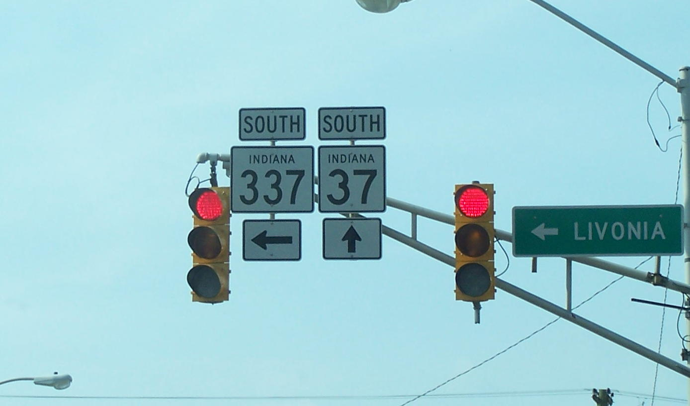 Indiana State Road 337 turns left in Livonia, Indiana towards the town of Orleans.